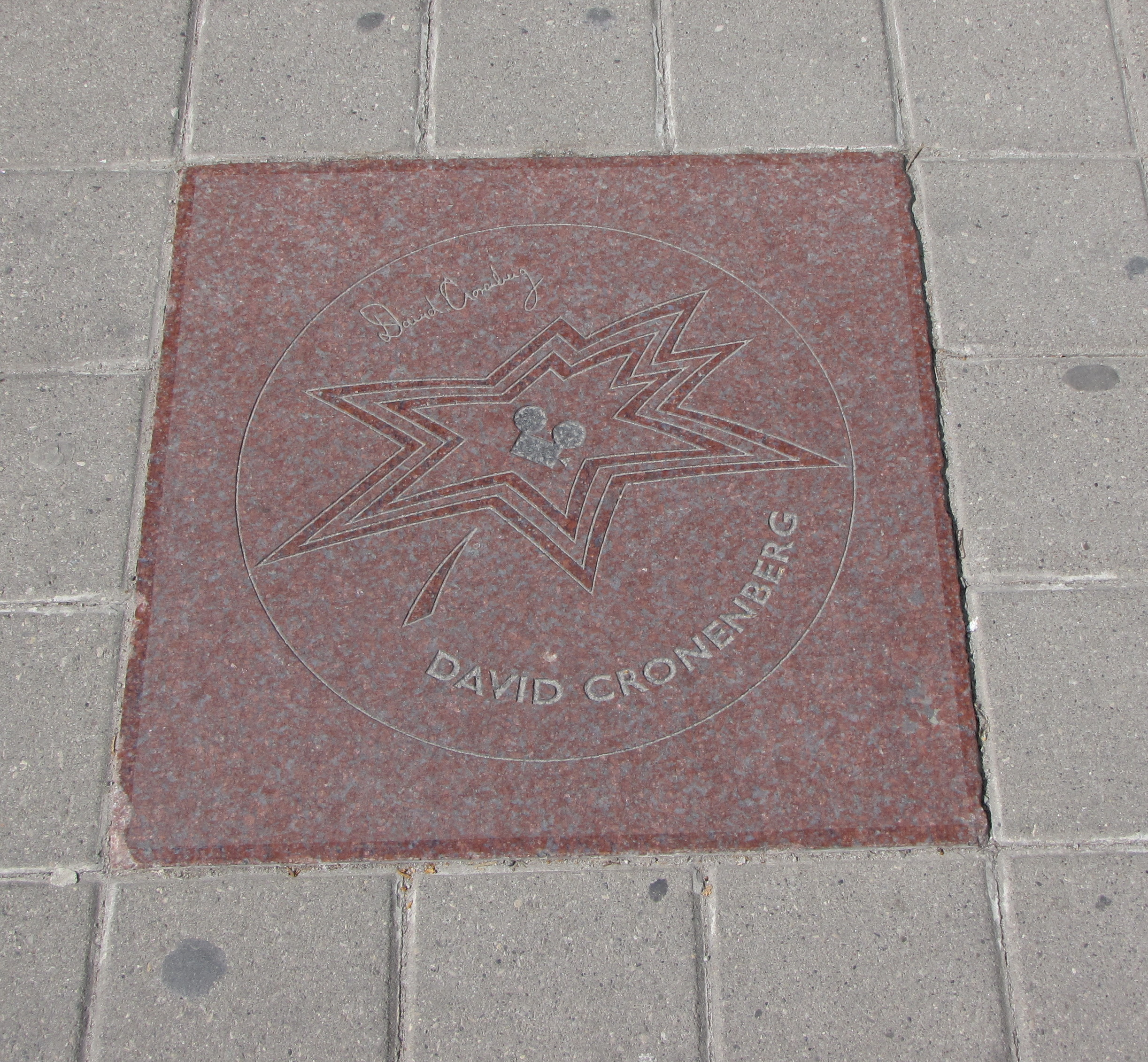 David Cronenberg's star on Canada's Walk of Fame